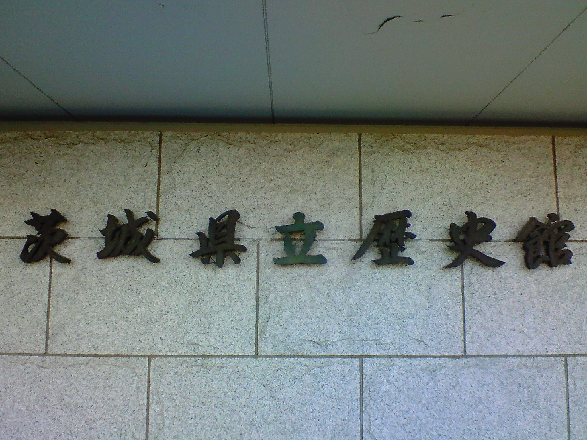 the name plate of Ibaraki Prefectural Museum of History